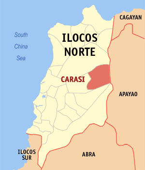 Map of Ilocos Norte showing the location of Carasi